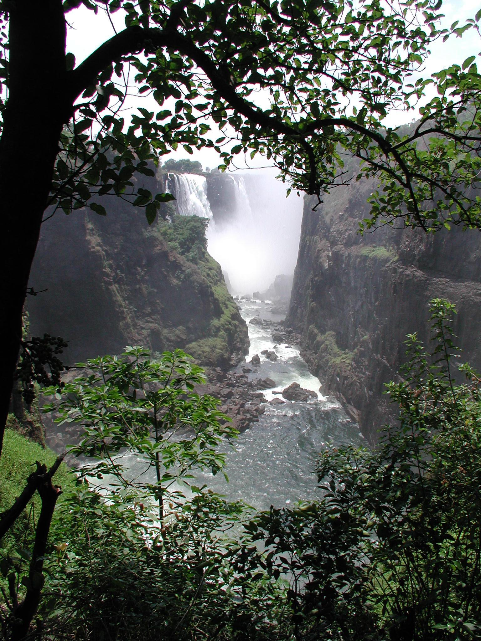 Panorama of the Victoria Falls. One gets a glimpse of the majestic Victoria Falls here, though drought has reduced the flow of the mighty Zambezie to less than 25% of its normal volume at the Falls.